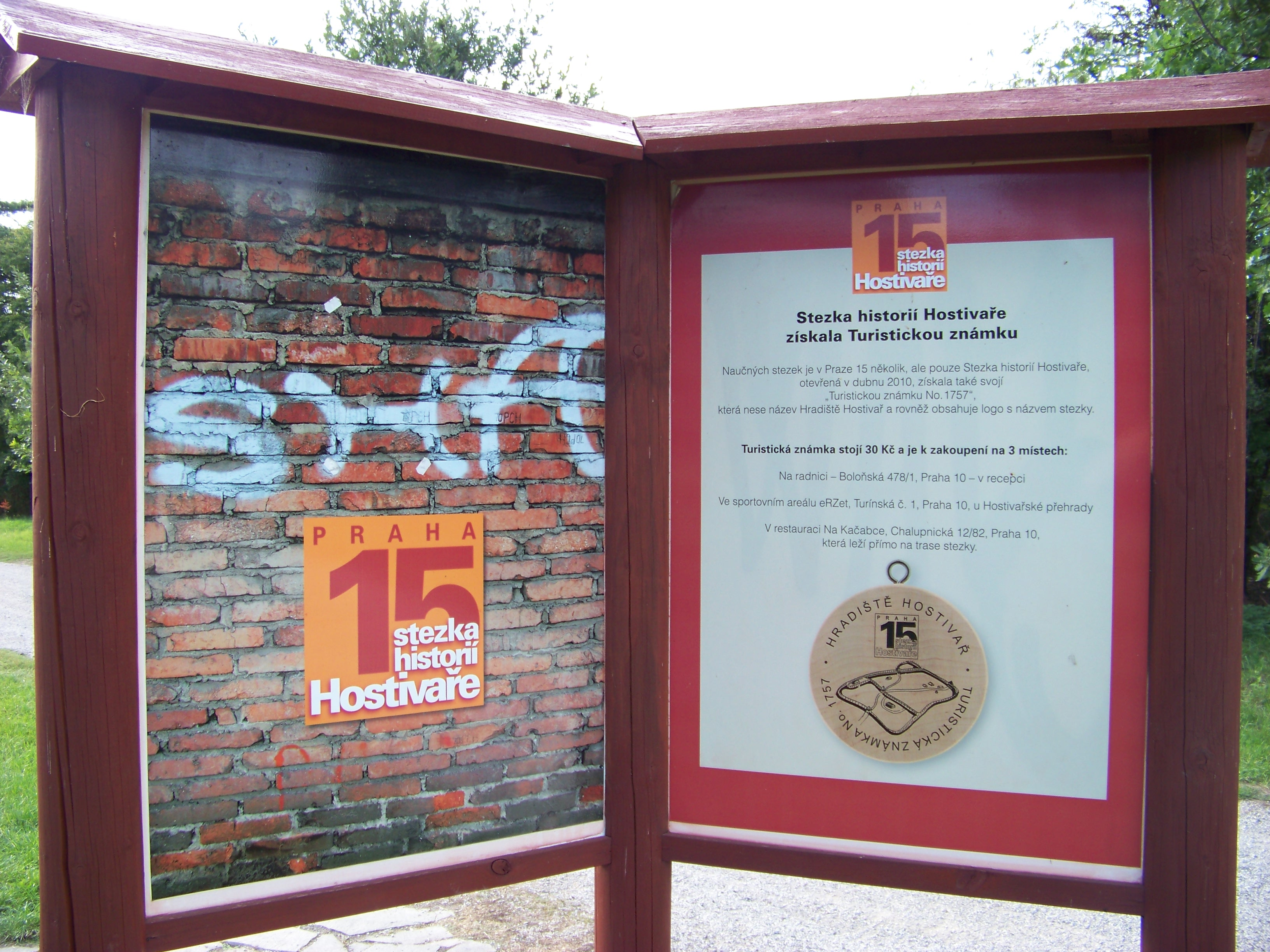 Prague-Hostivař, the Czech Republic. A former fortified settlement. An information about the Touristic Stamp. - OpenStreetMap(Info)